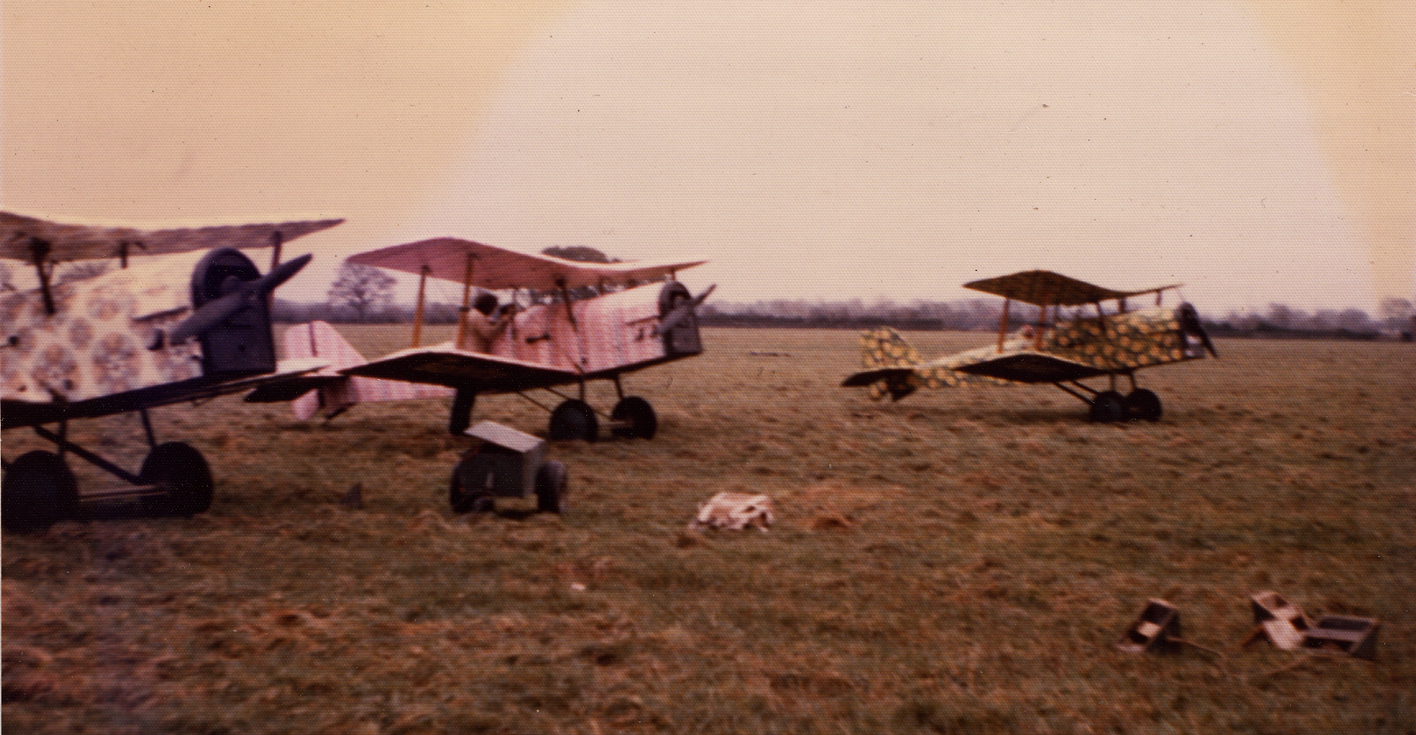 Henkel wallpaper past ad using Lynn Garrison aircraft, 1973